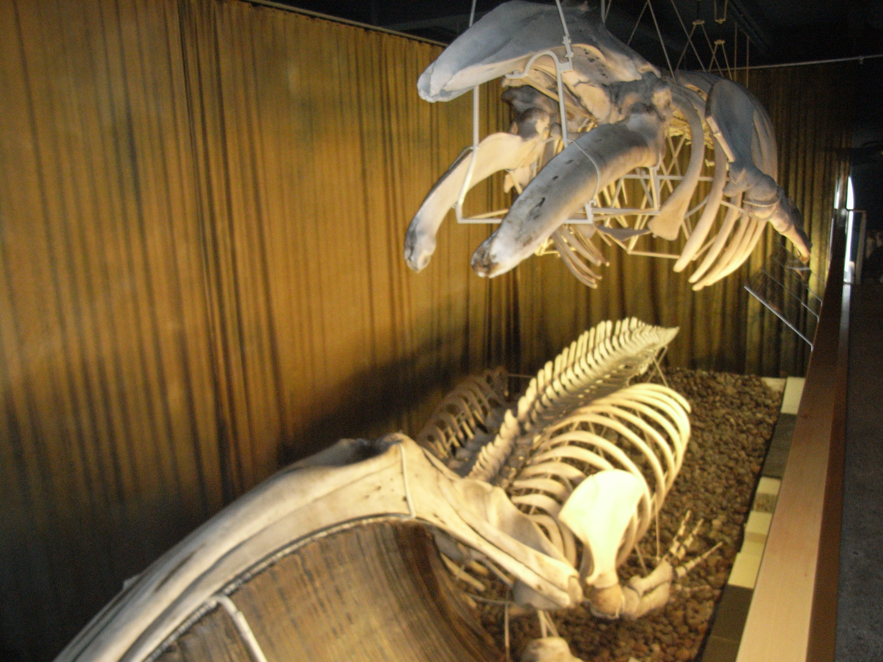 Whale Gallery at the Swedish Museum of Natural History in Stockholm, Sweden